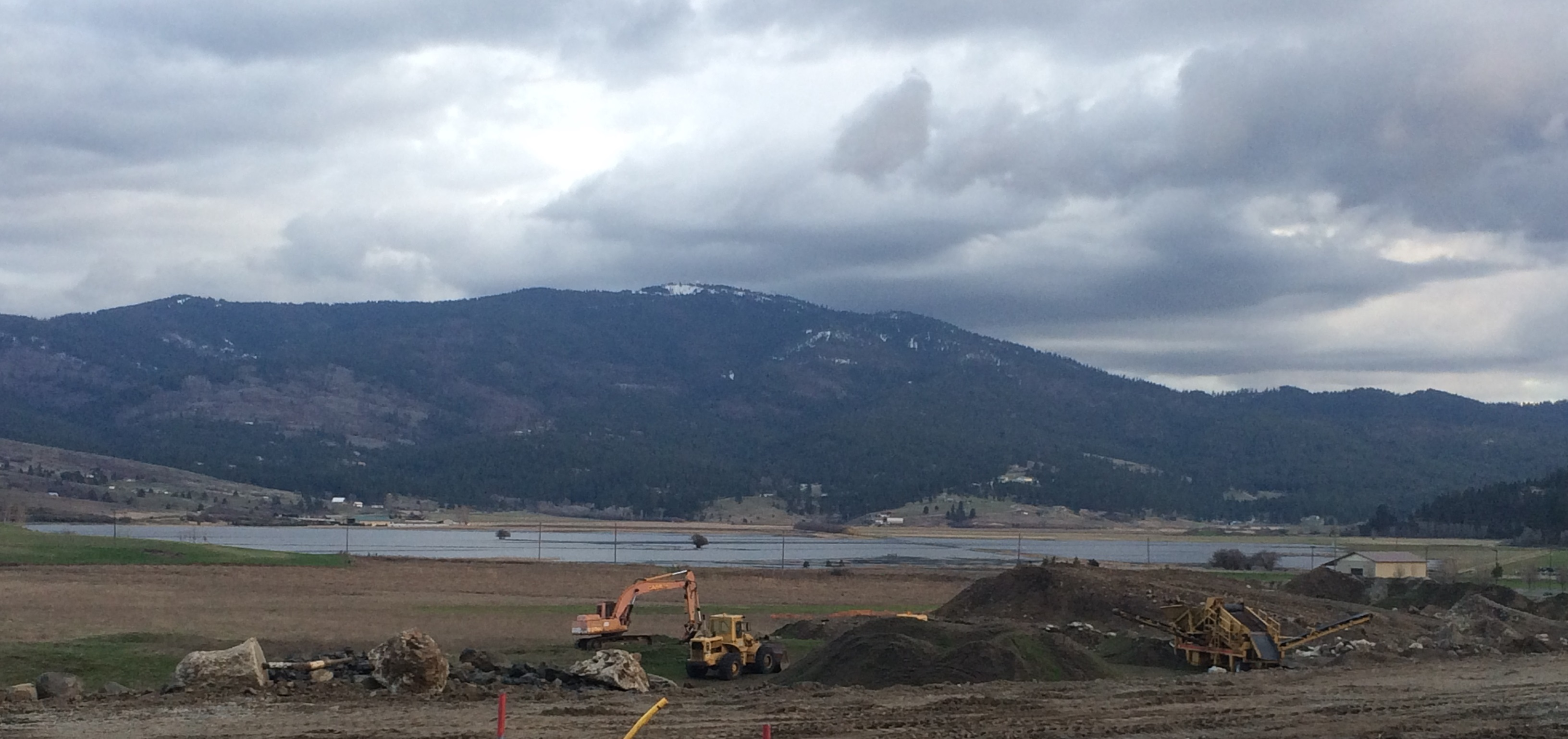 Lake Saltese temporarily recreated after extremely wet winter lead to flooding of the Saltese Flats